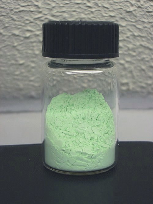 Basic nickel(II) carbonate